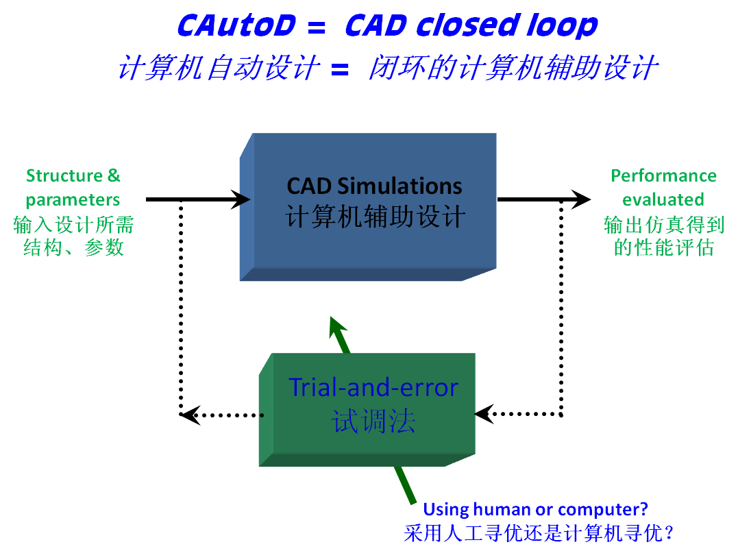 Interaction in computer-automated design